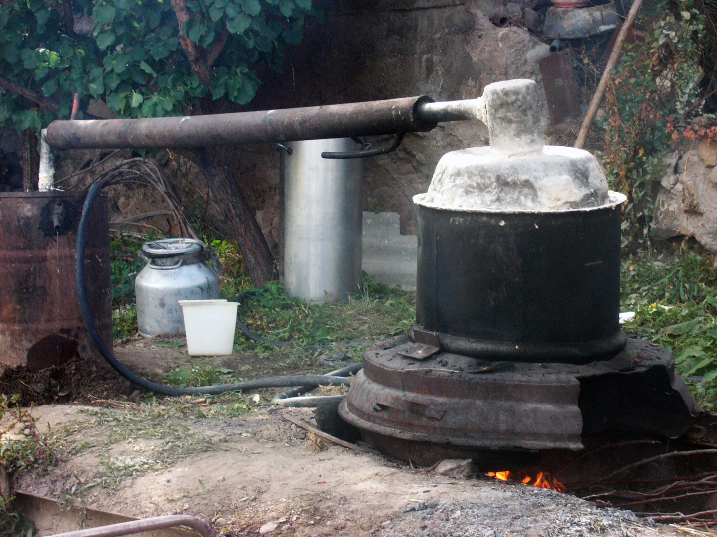 A crude moonshine (samogon) device in Areni village, Armenia.